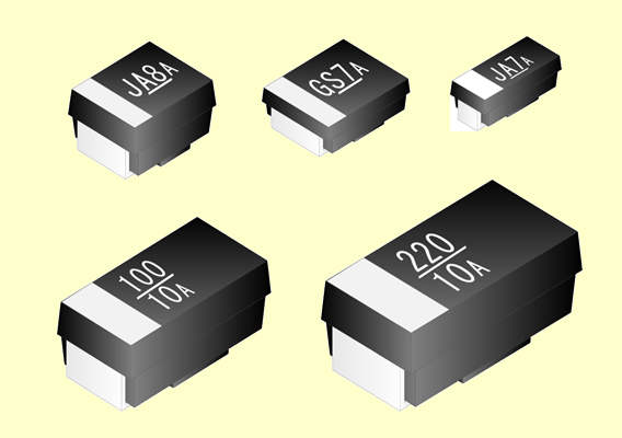 SMD (Chip) style of Niobium electrolytic capacitors, picture courtesy of Vishay Intertechnology for publishing under “CC0 1.0 universal public domain”.